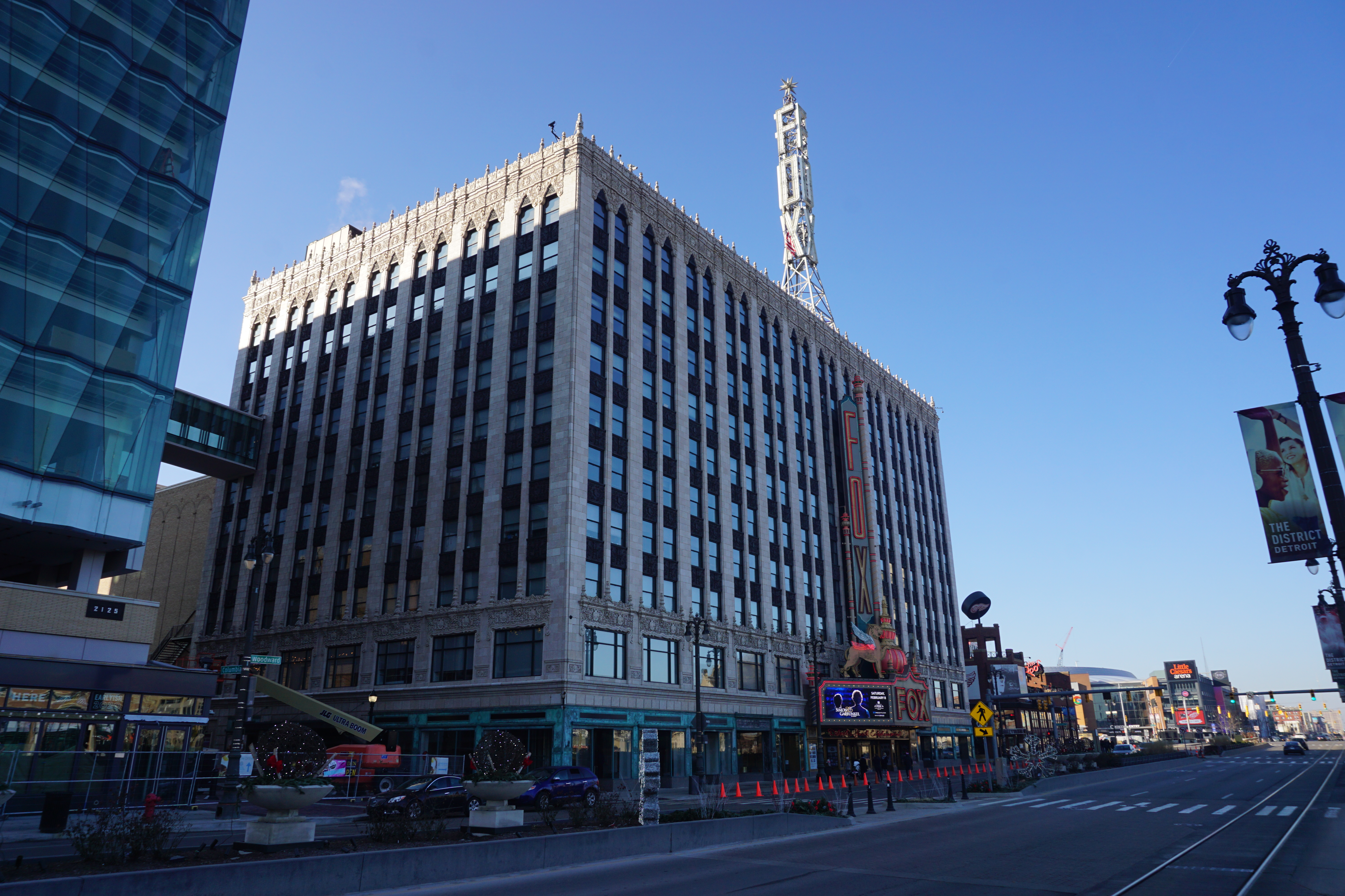 The Fox Theatre in Detroit, Michigan (United States).